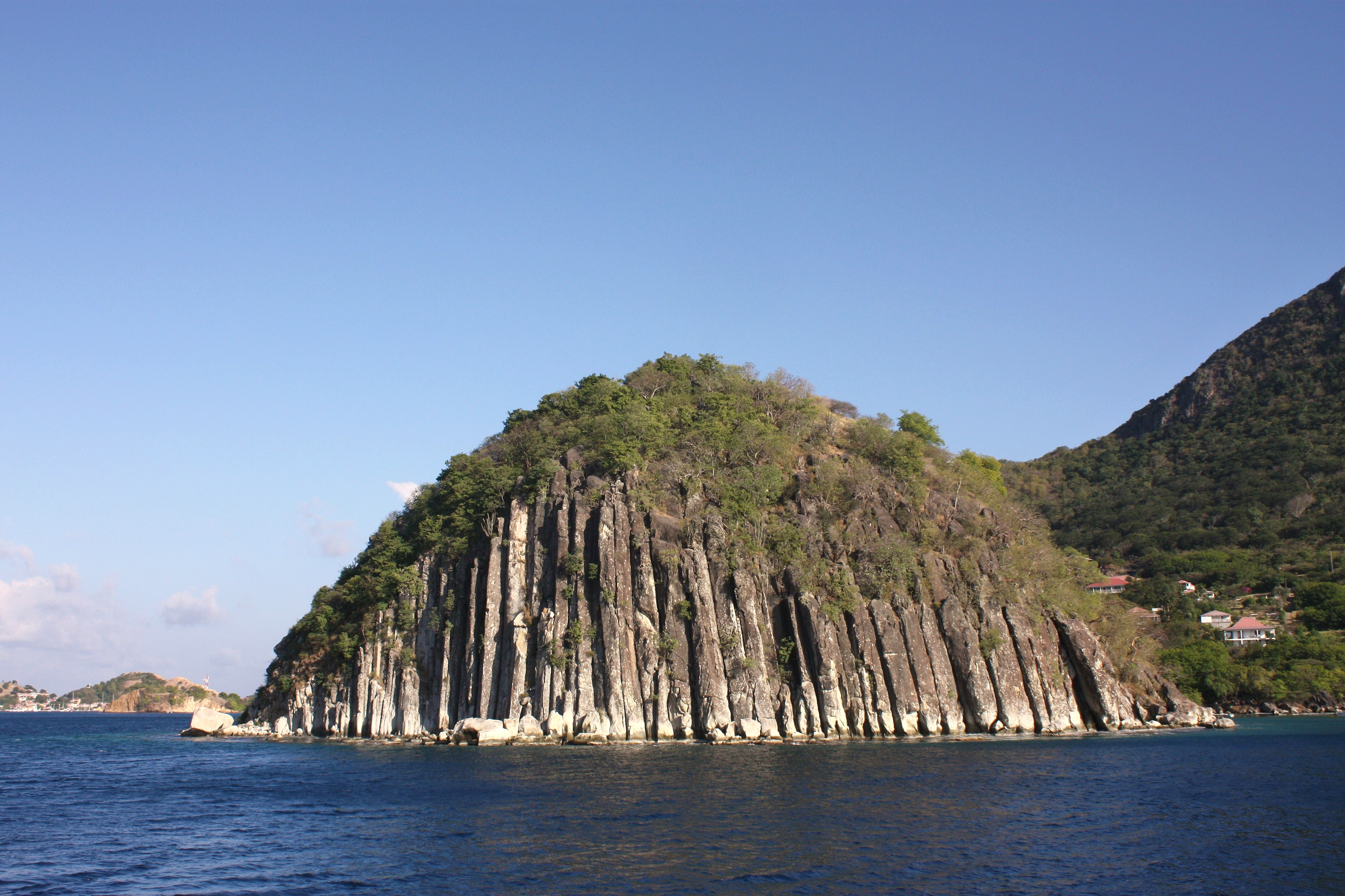 Pain de sucre peninsula on Terre-de-Haut Island. Îles des Saintes, Guadeloupe.